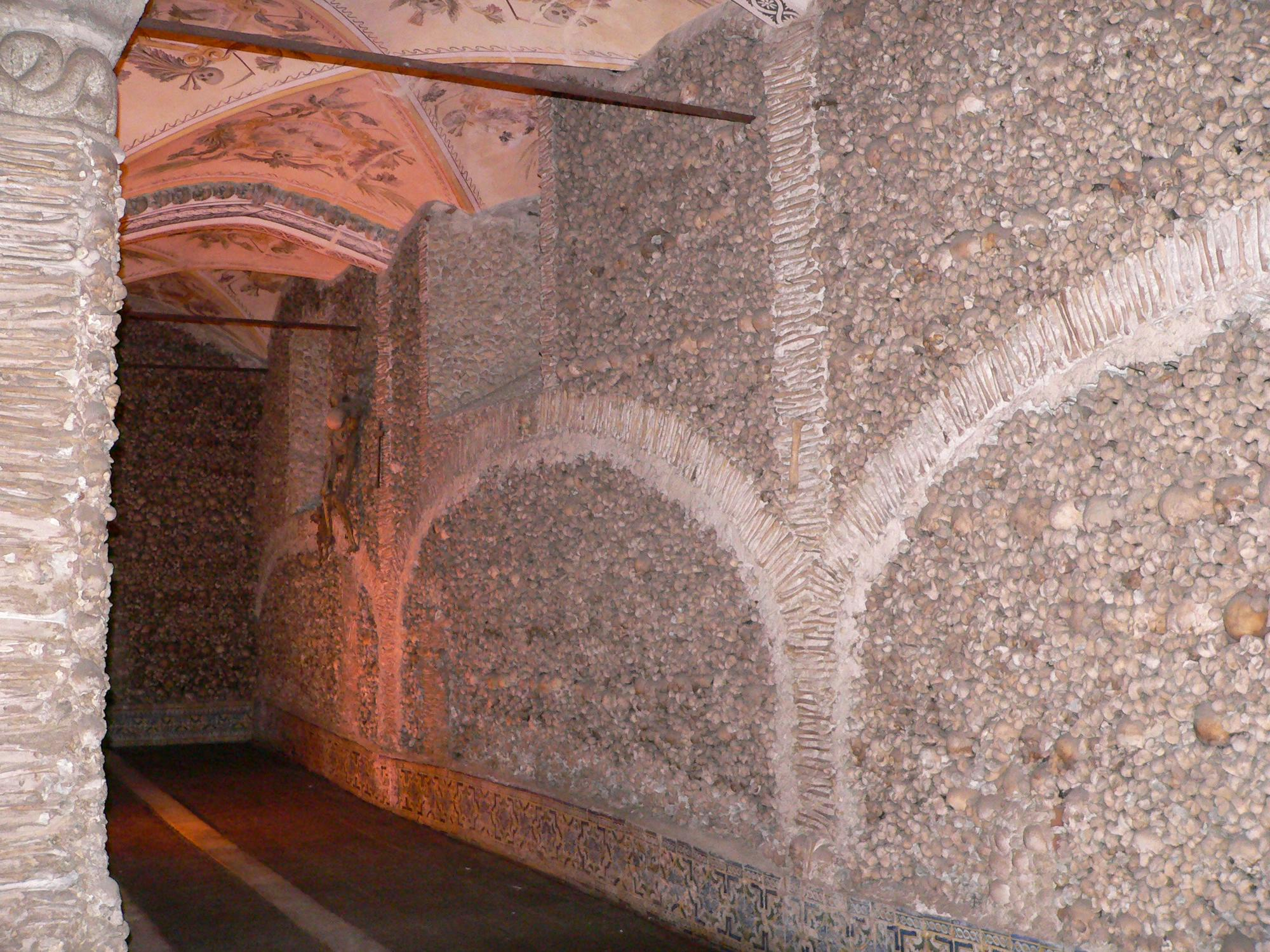 Wall of the Bone Chapel (Évora,Portugal)